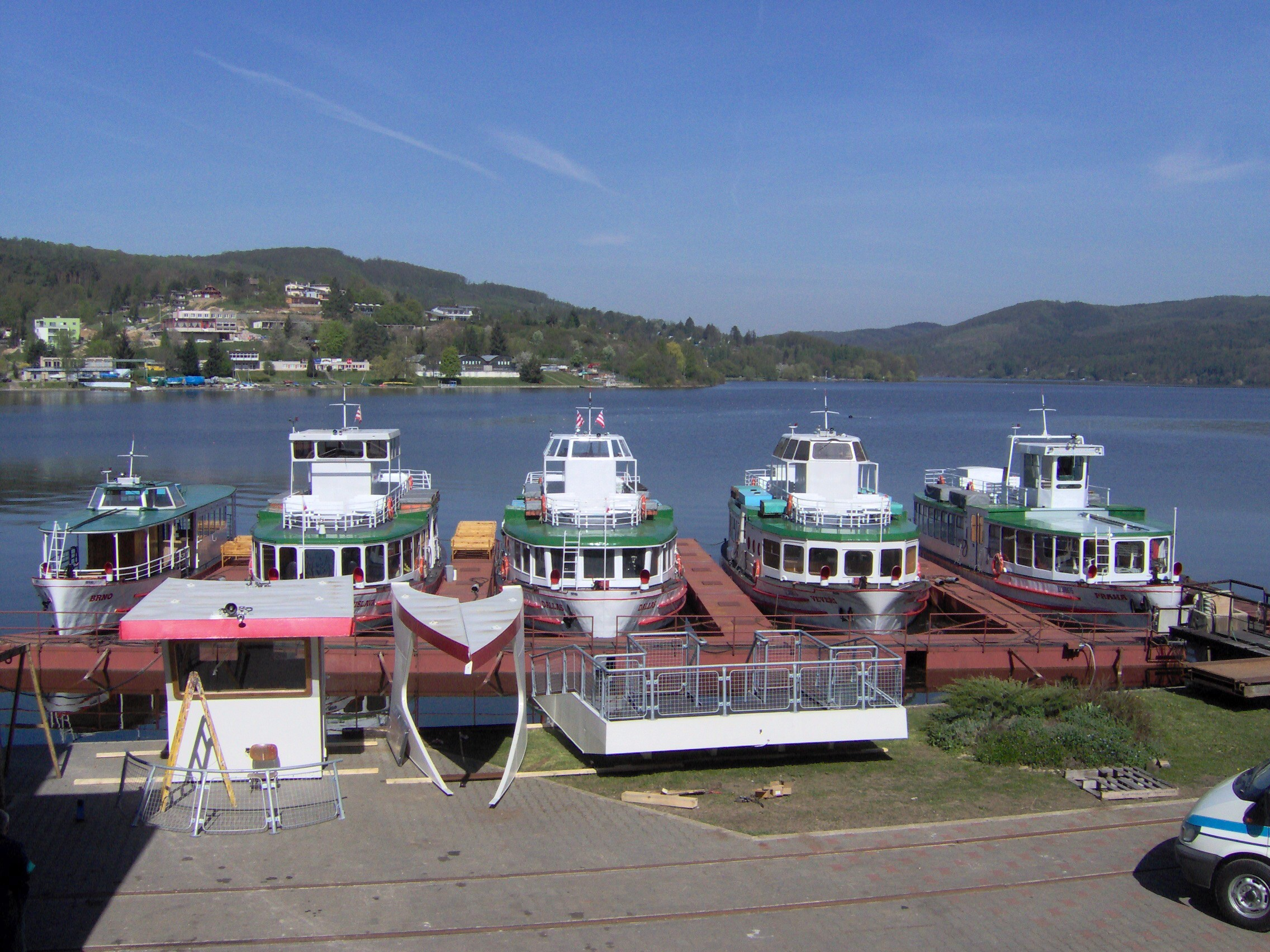 Fleet of Dopravní podnik města Brna at Brno Reservoir: ships (from left to right) Brno, Bratislava, Dallas, Veveří and Praha. Brno, Czech Republic